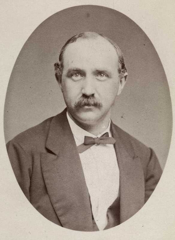 Hjalmar Heiberg (1837-1897), Norwegian professor of medicine.